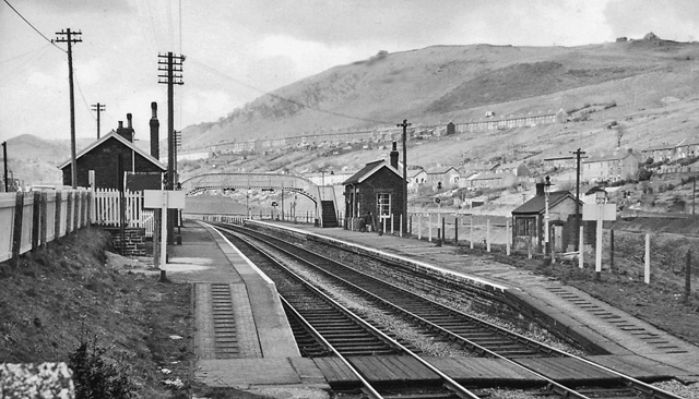 Brithdir Station. View NW, towards Rymney; ex-Rhymney Railway, Cardiff (Queen St.) - Caerphilly -Rhymney Bridge line (closed beyond Rhymney 23/9/53).